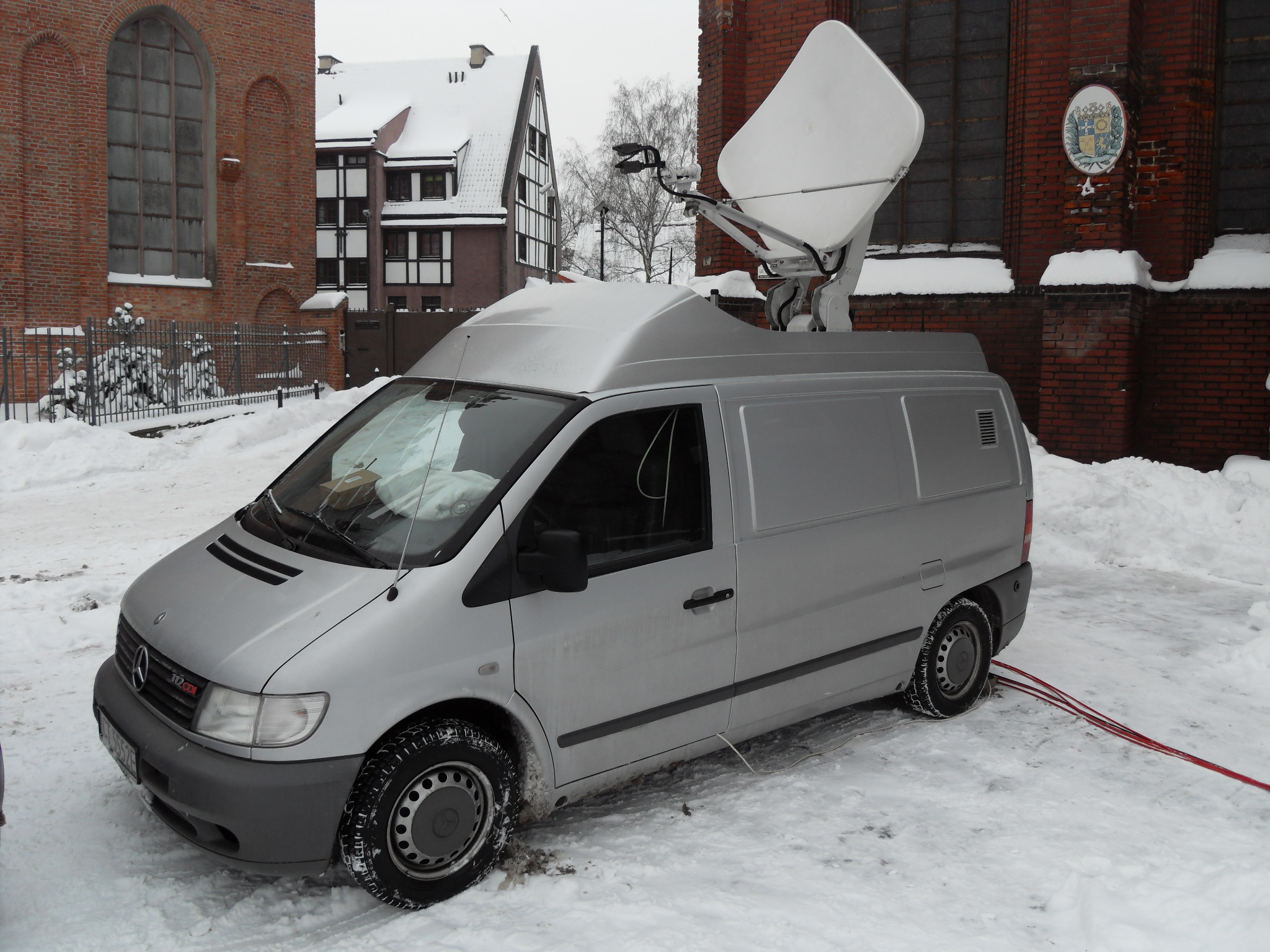 Pangasinan: An outside broadcasting van of TV Trwam from Poland in Gdańsk (Poland).